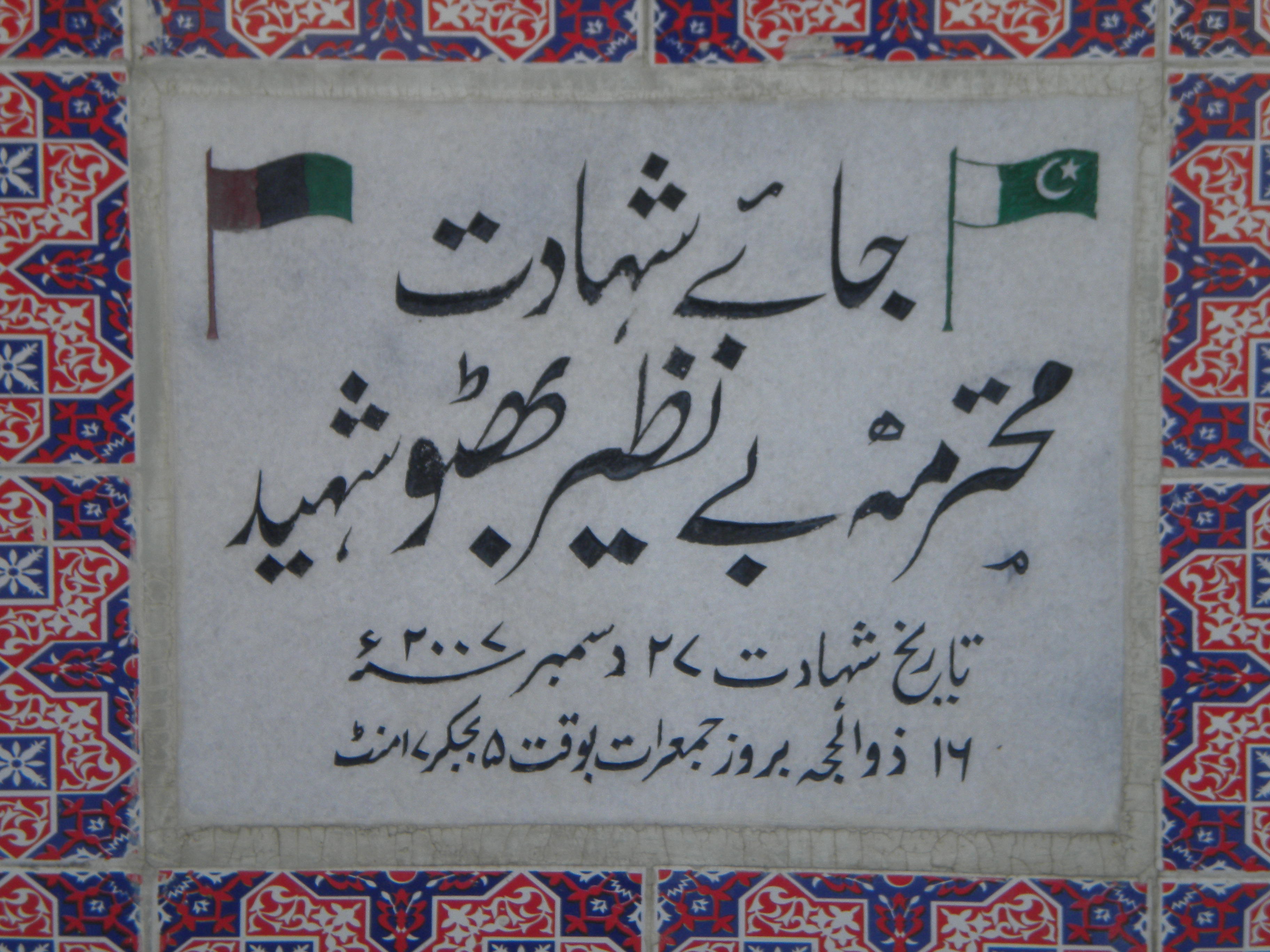 Benzir Bhutto's death place mark